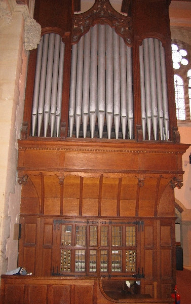 Holy Trinity Church Leicester, pipe organ. Photo taken by Paul Parkinson 31-Dec-2006.